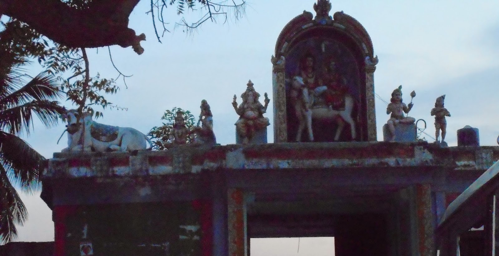 Tirukkurukavur velladainathar temple திருக்குருகாவூர் வெள்ளடைநாதர் கோயில்